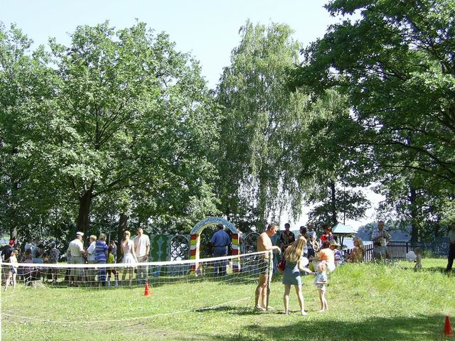 Summer day at the lake in Belye Berega, Bryansk oblast, Russia